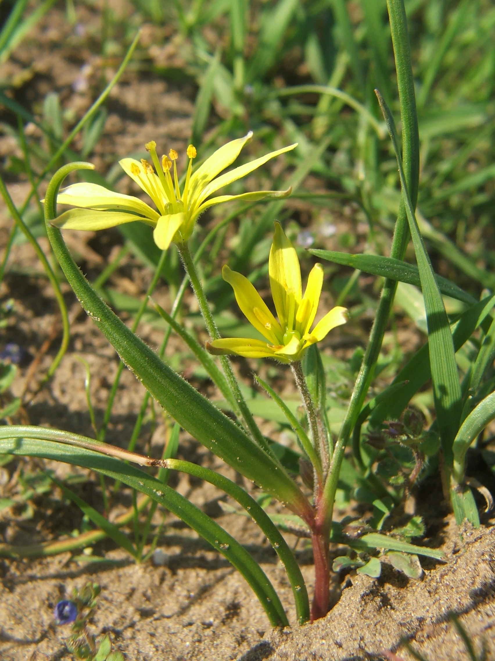 Gagea villosa